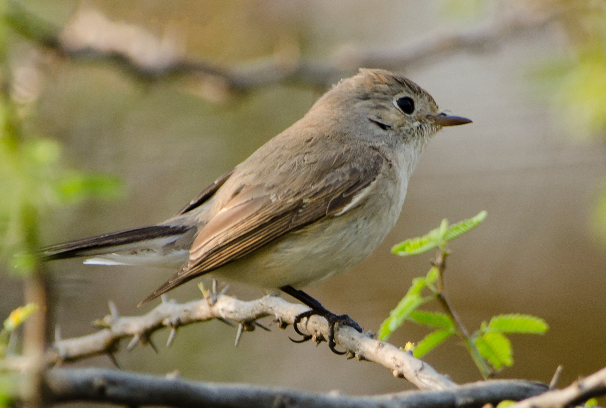 Red Breasted Flycatcher, female, clicked at Nagpur by Dr. Tejinder Singh Rawal